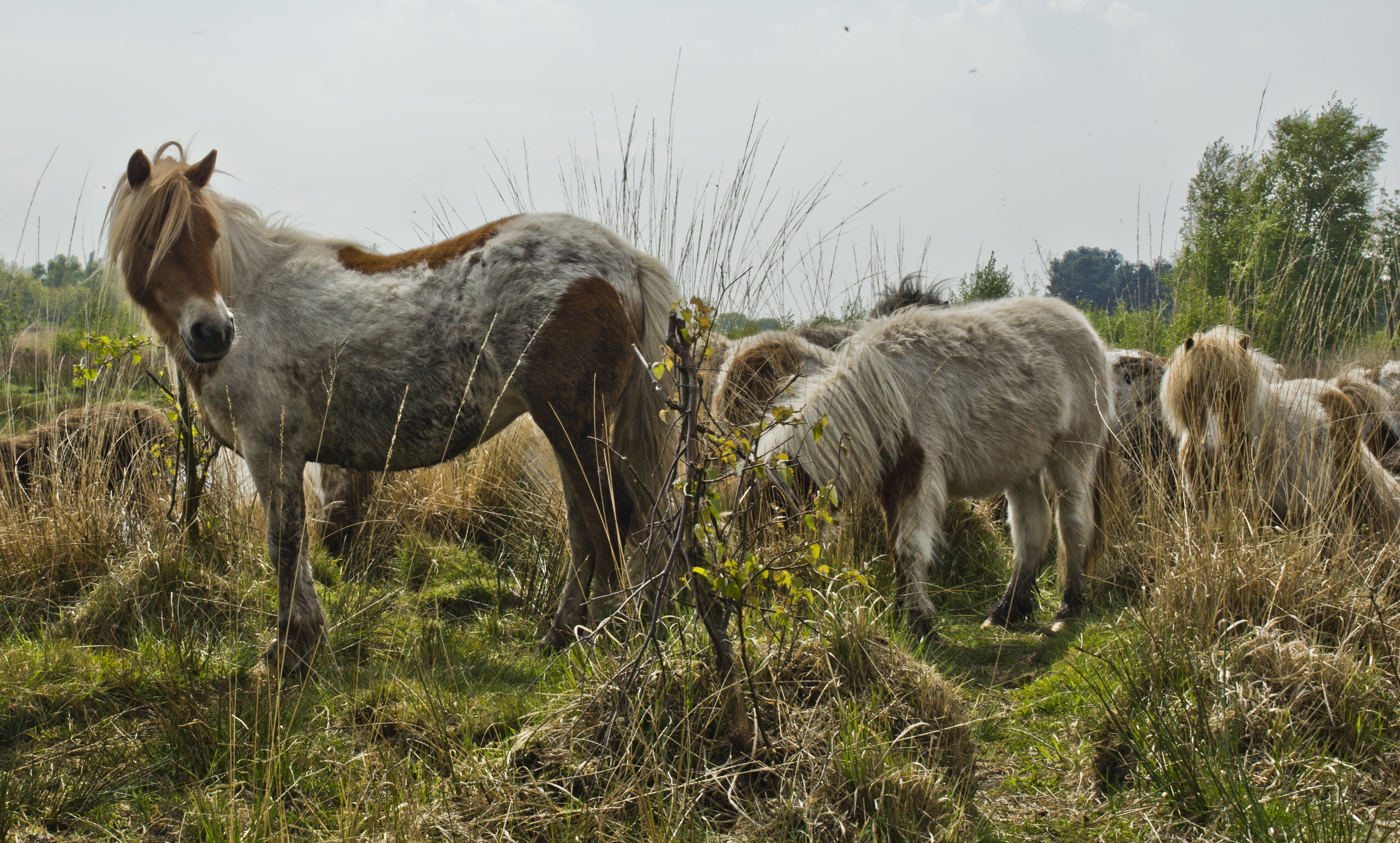 This is a photo or sound file made in De Groote Peel National Park in the Netherlands, with the main subject of the file in the category: animals